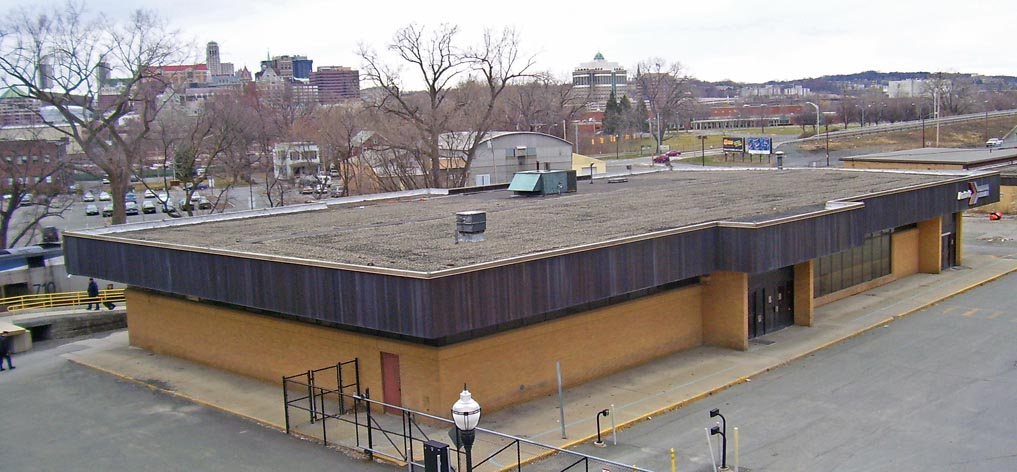 Photographed by Daniel Case 2007-04-06.